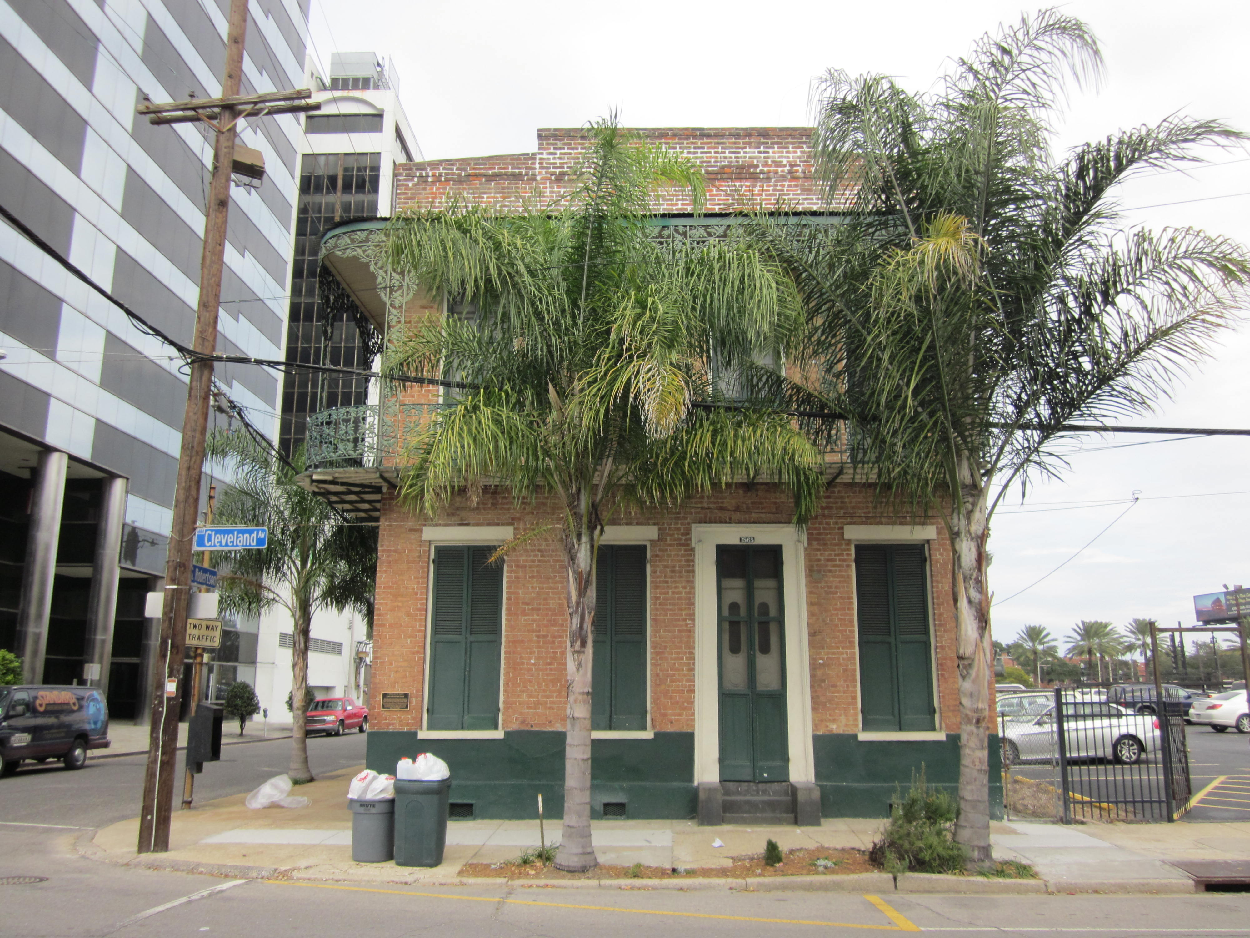 New Orleans: Former home of writer Lafcadio Hearn, on Cleveland Avenue at downtown river corner of Robertson Street. Front